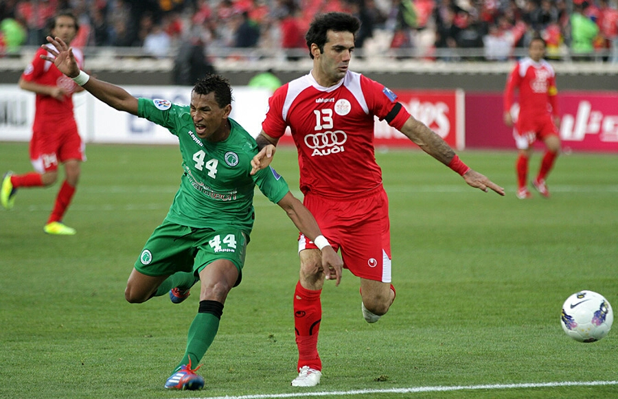 Sheys Rezaei (Right)